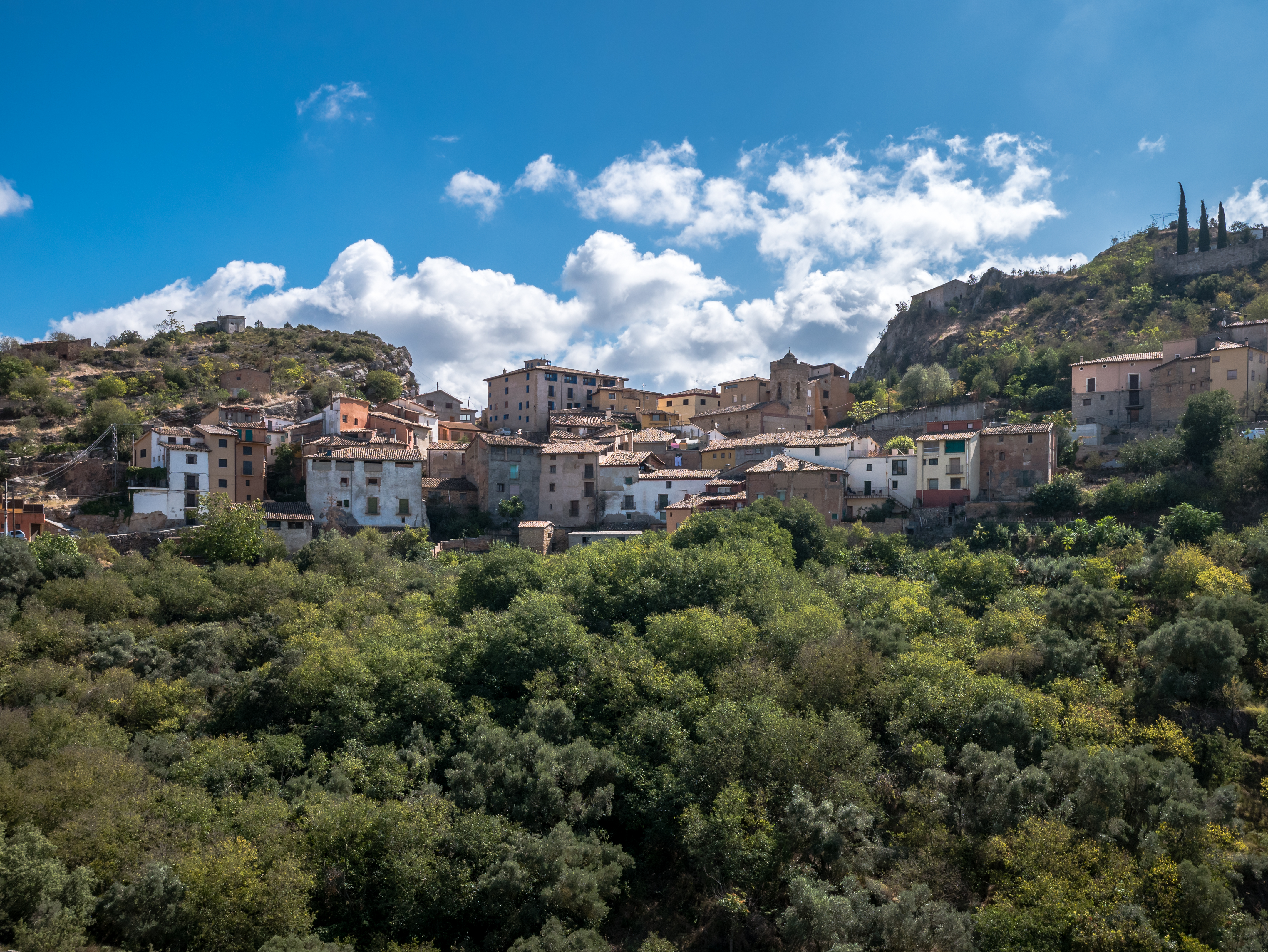 View of Olvena, Huesca, Aragon, Spain